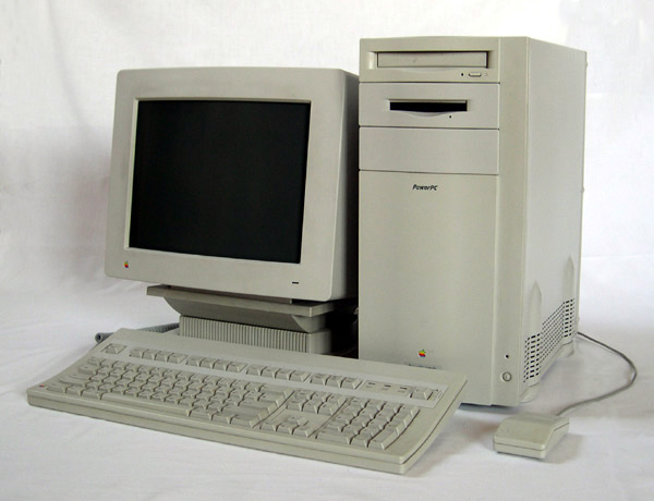 Apple Power Macintosh 9500. Übernommen von de.wikipedia.